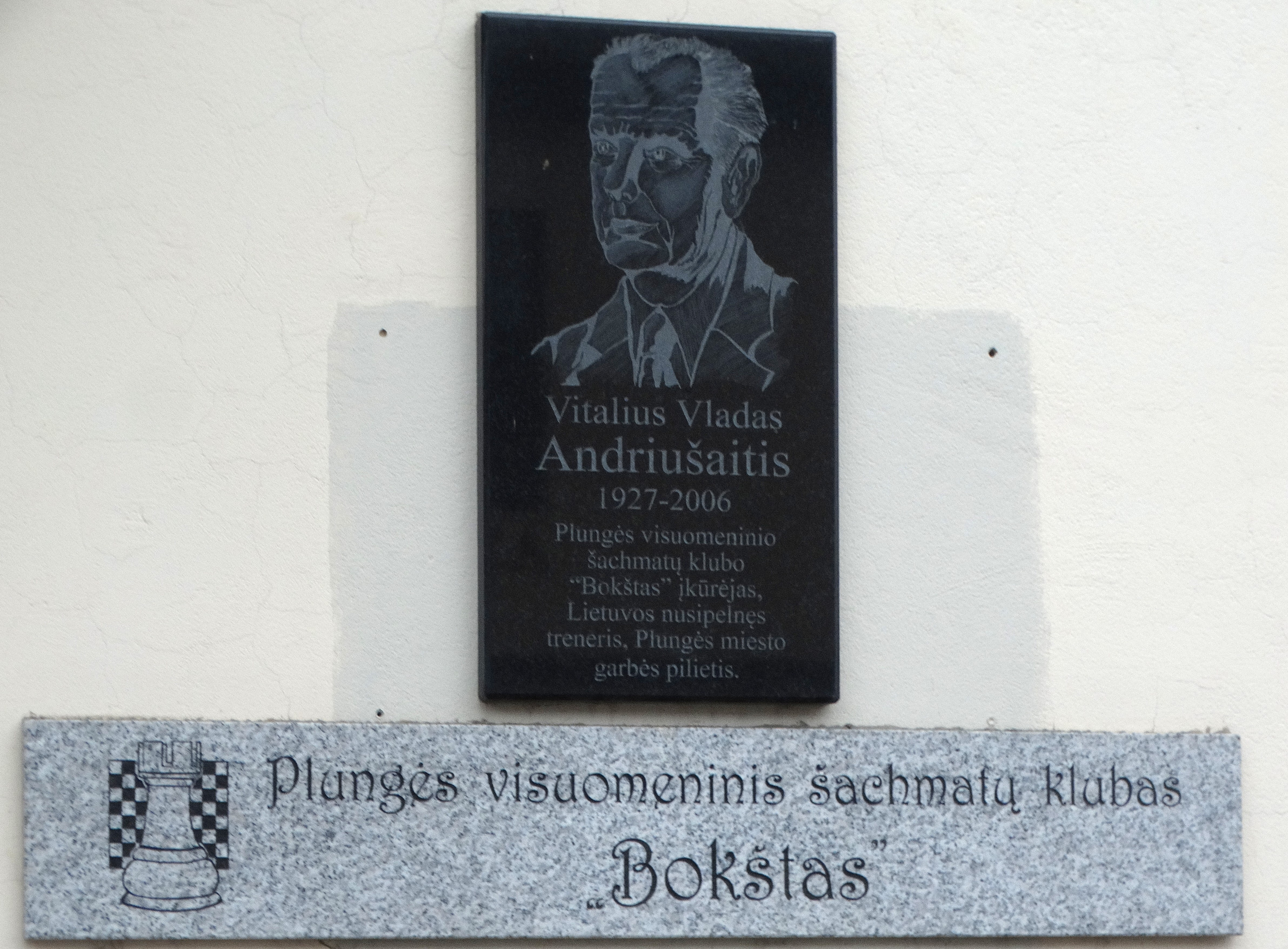 Vitalius Vladas Andriušaitis, memorial plaque in Plungė, Lithuania